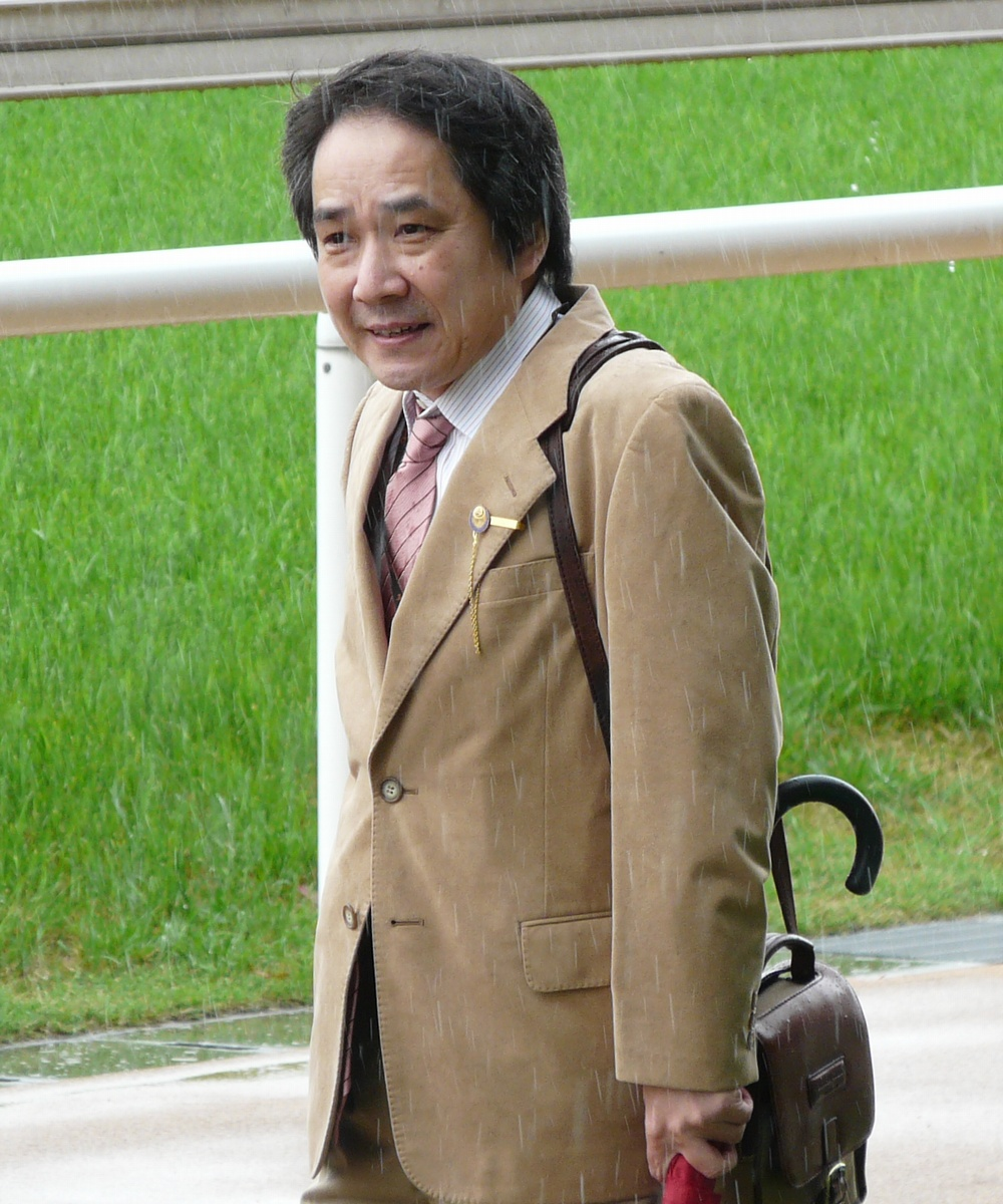 Hiroyuki-Sonobe20110423